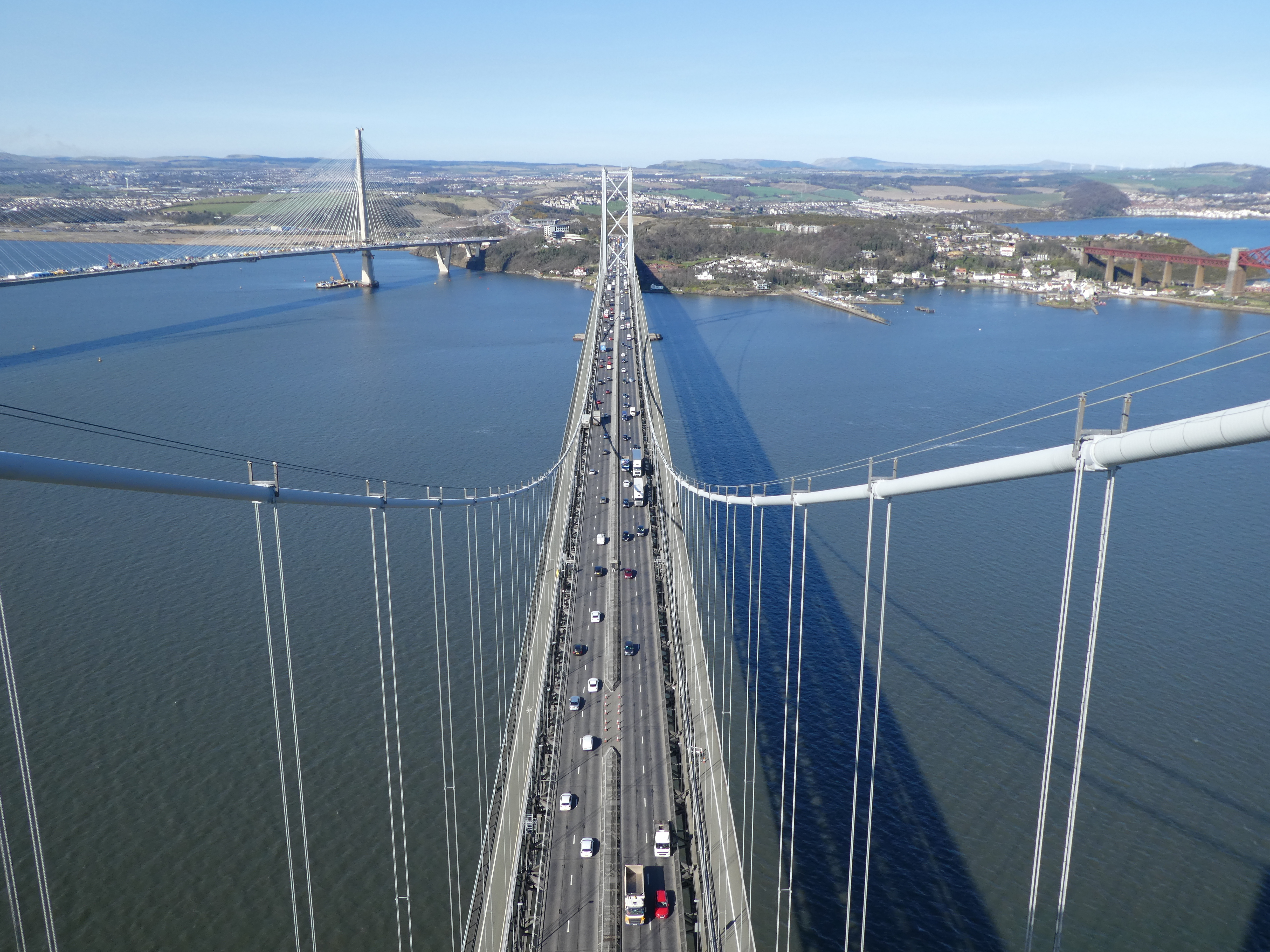 Traffic on the Forth Road Bridge